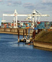 The picture shows the container harbour in Duisburg.